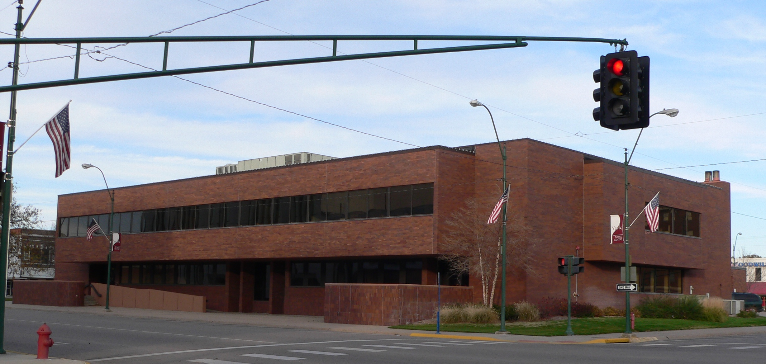 York County Courthouse, located at 510 Lincoln Ave, York, Nebraska.